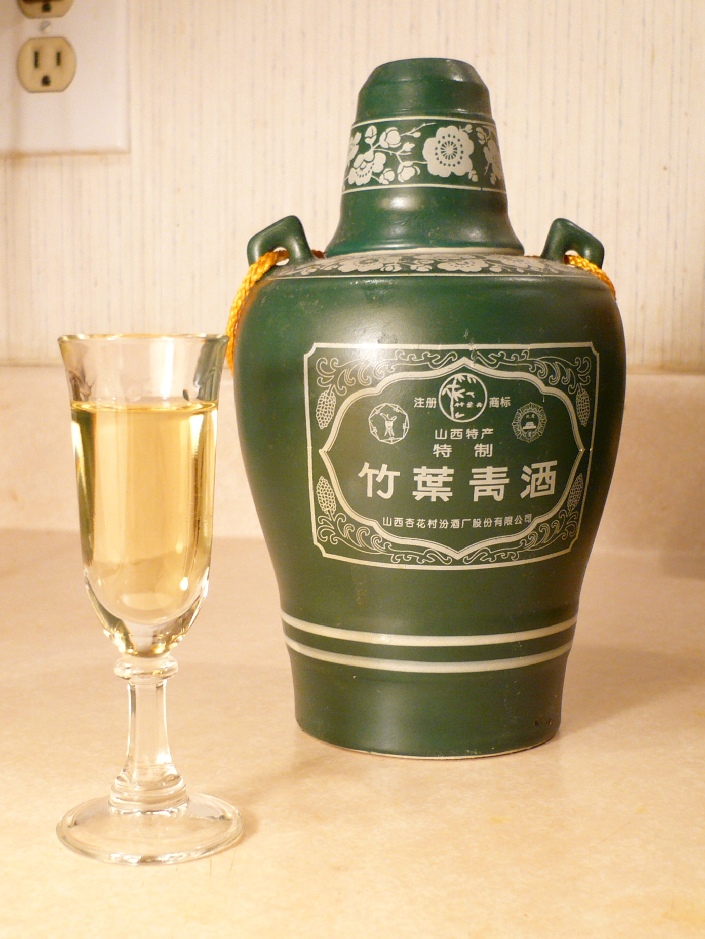 A glass and bottle of zhuyeqing jiu (竹葉青酒; pinyin: zhúyè qīnq jiǔ, lit. "bamboo leaf green liquor"), a sweetened liquor flavored with bamboo leaves and medicinal herbs, produced in the Shanxi province of China. Photo taken in Kent, Ohio with a Panasonic Lumix digital camera (model DMC-LS75). The zhuyeqing jiu was purchased in Beijing, China.